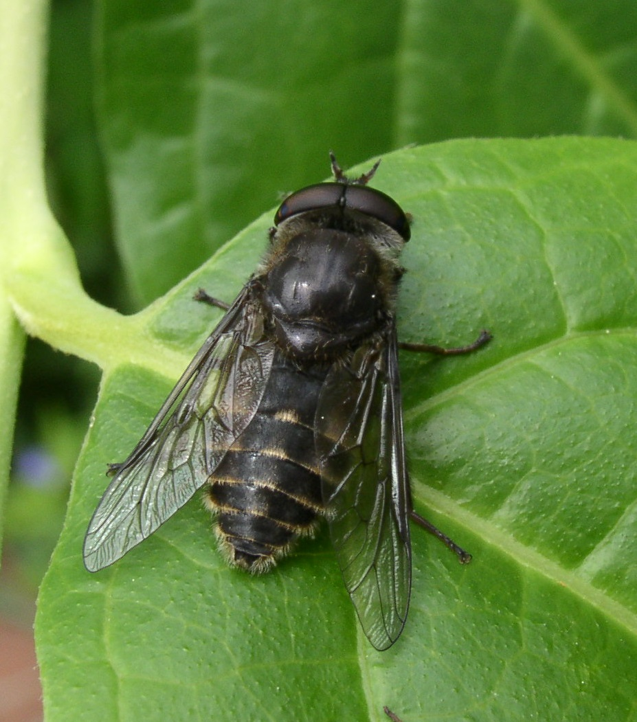 Horse fly, Hybomitra, male. Pennypack Restoration Trust, Montgomery County, Pennsylvania, USA.